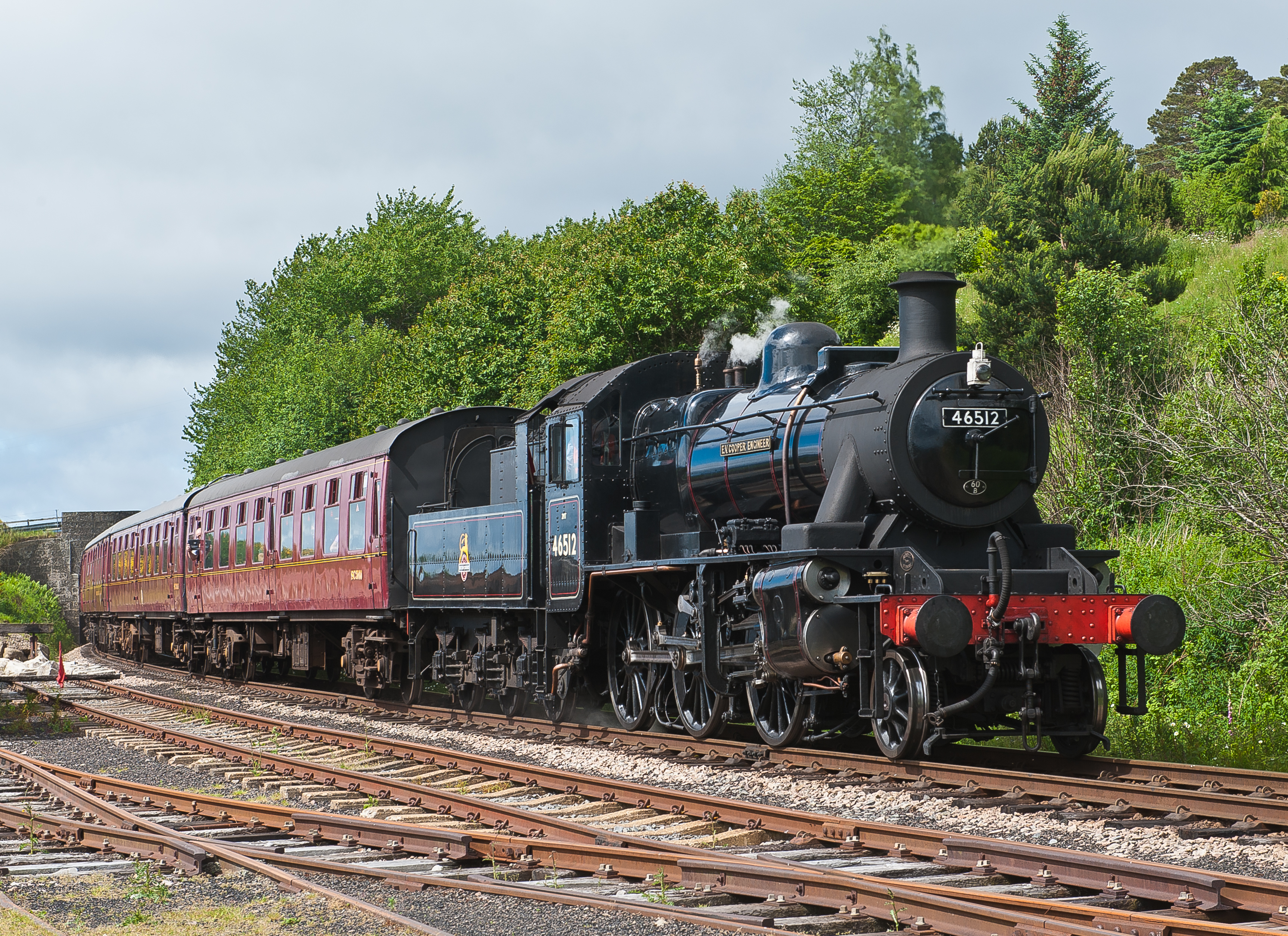 Strathspey Railway, LMS class 2MT Ivatt locomotive, at Broomhill Station